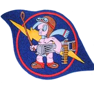 Emblem of the 487th Fighter Squadron (World War II)